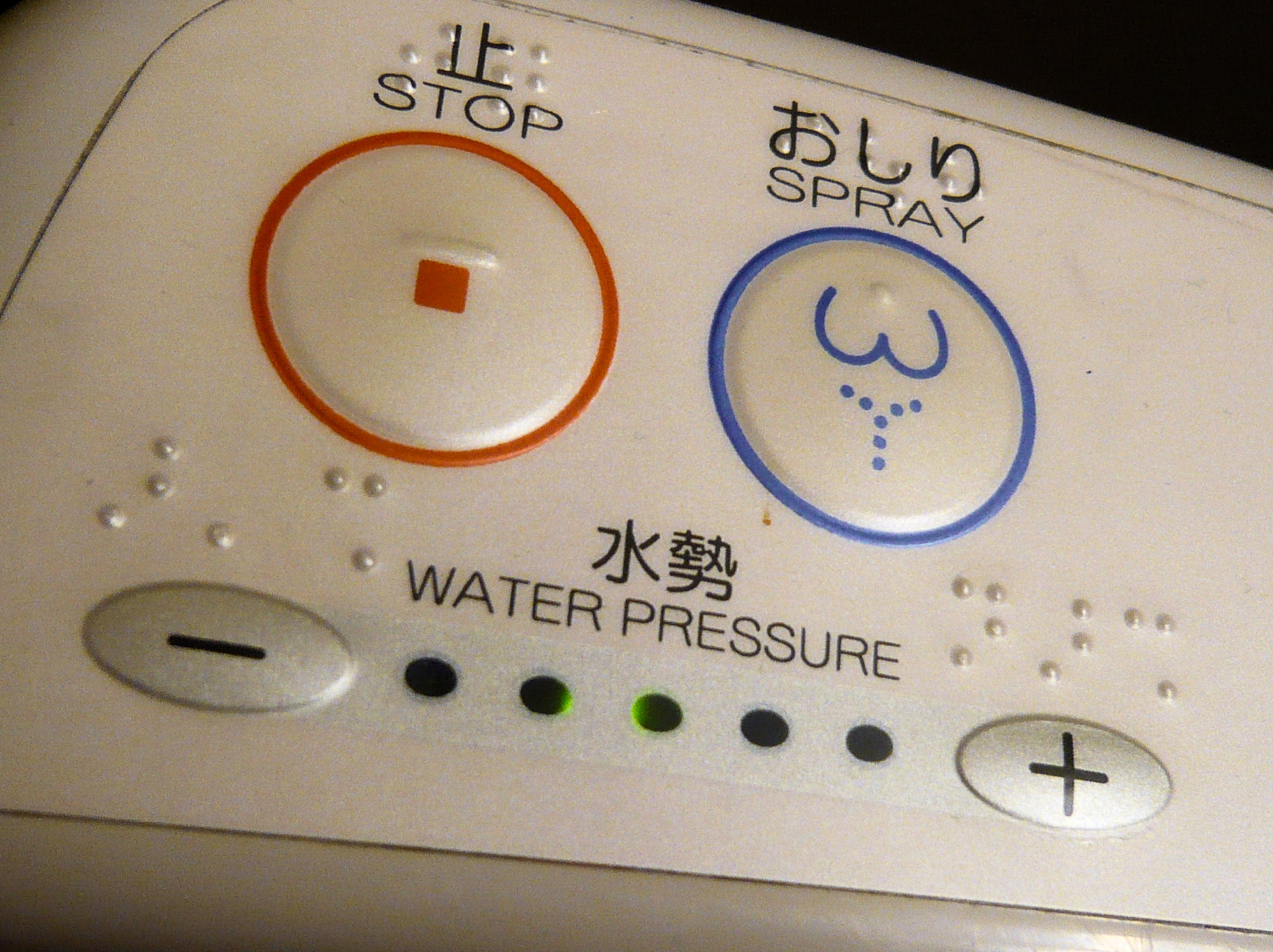 The buttons on a Japanese bidet-style toilet to inject/stop the jet of water. See where this picture was taken.